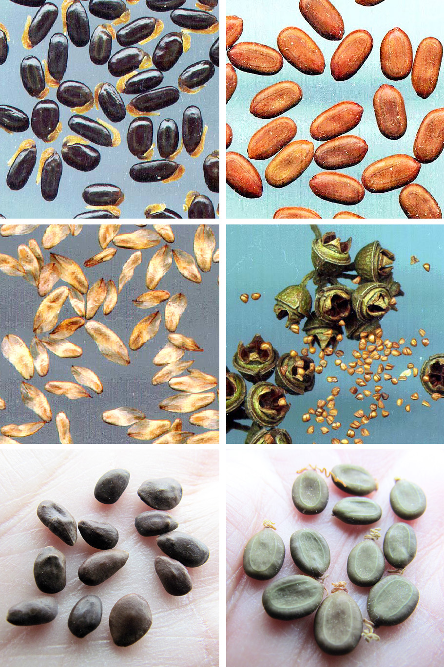 Orthodox tropical seeds